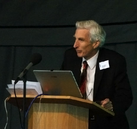 Photograph of Sir Martin Rees (Lord Rees of Ludlow) taken at the 50th anniversary of the Lovell radio telescope at Jodrell Bank.